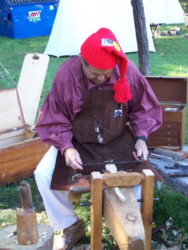 Making a wooden spoon. Spoon Carving on a Shaving horse. Feast of the Hunters Moon, Indiana, Lafayette